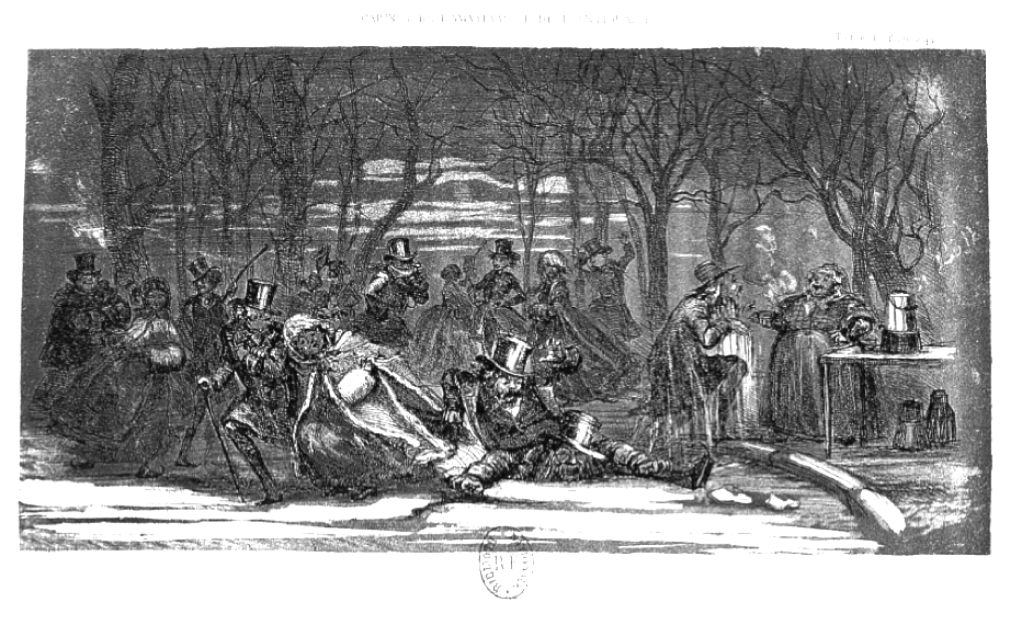 L'Hiver [Winter], double print from an etching plates on steel, published in Le Cabinet de curiosité, Paris, 1843.